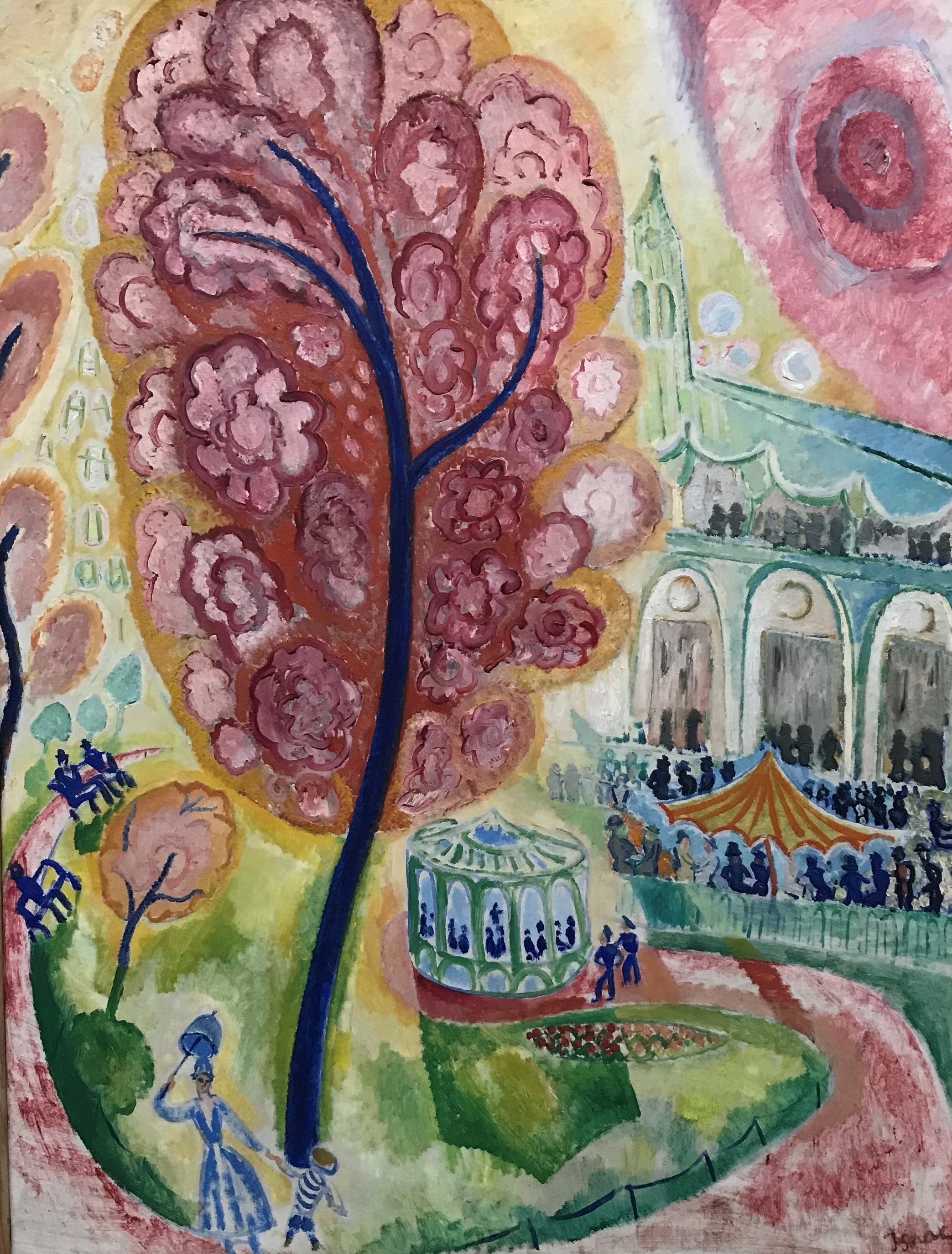 Det sjungande trädet (The singing tree) is an oil on canvas painting by Swedish Artist Isaac Grünewald from 1915. It is exhibited at Norrköpings Konstmuseum.